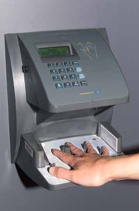 Physical security access control with a fingerprint scanner; Macquarie Telecom data center at Sydney